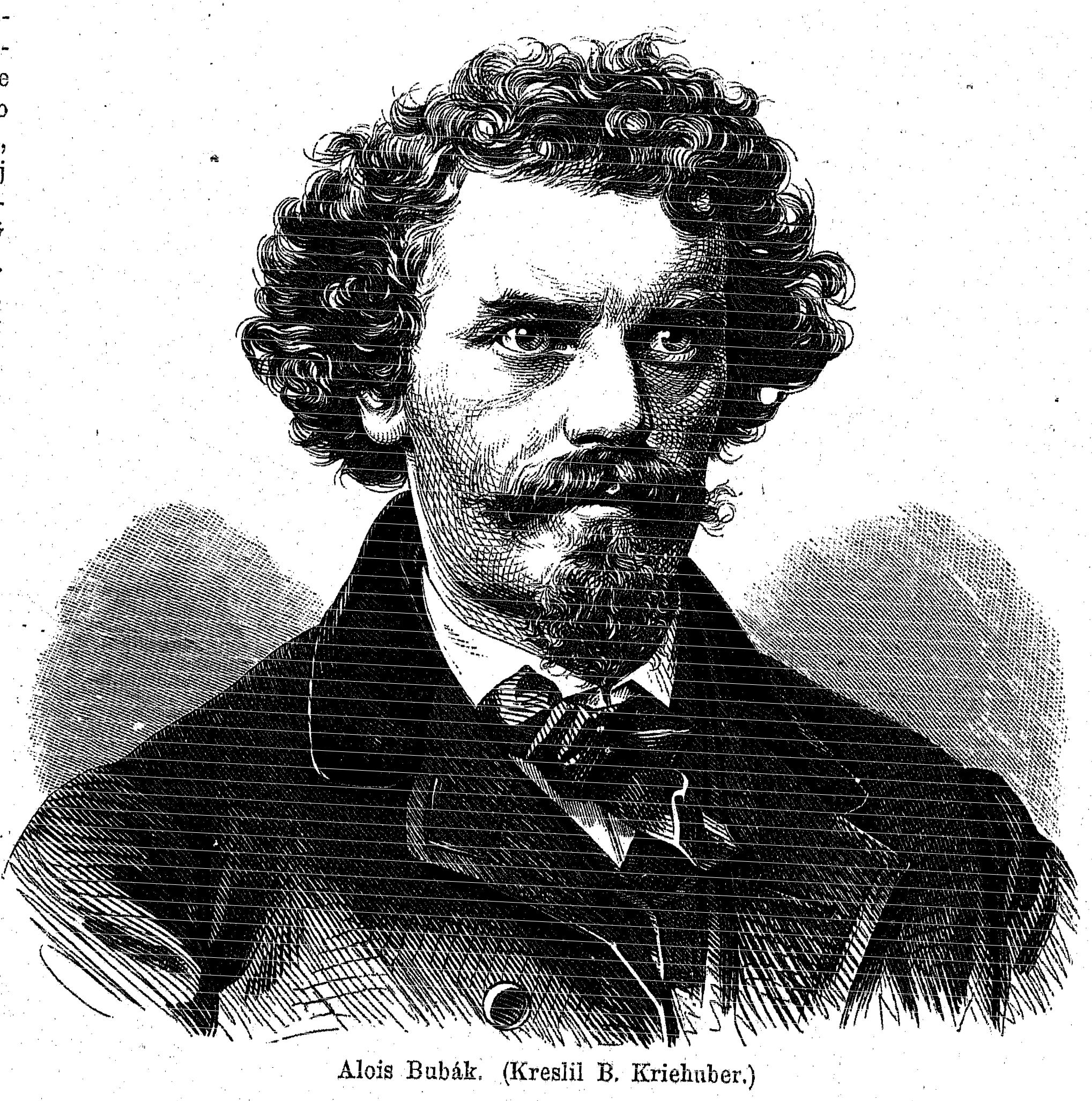 Portrait of Alois Bubák (1824 - 1870), Czech painter.